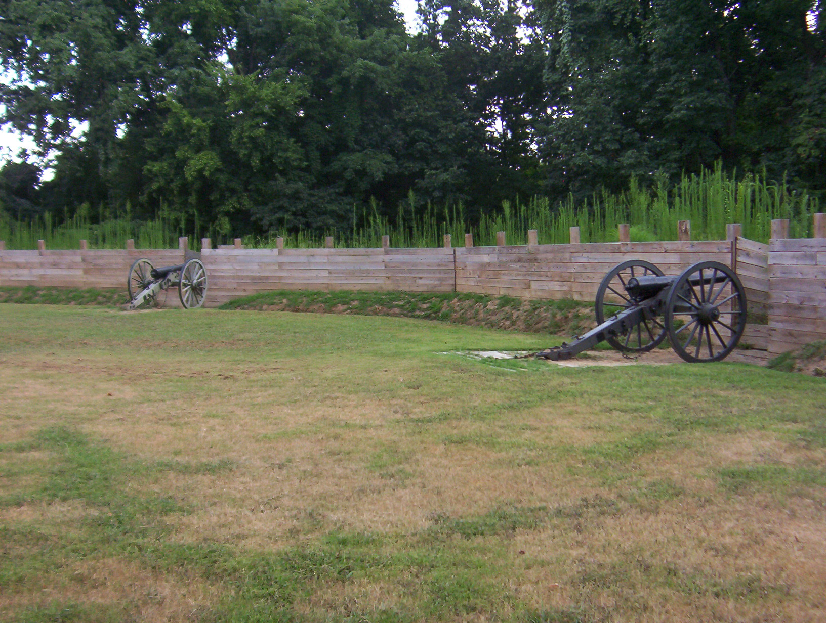 Cannon at Fort Pillow State Park